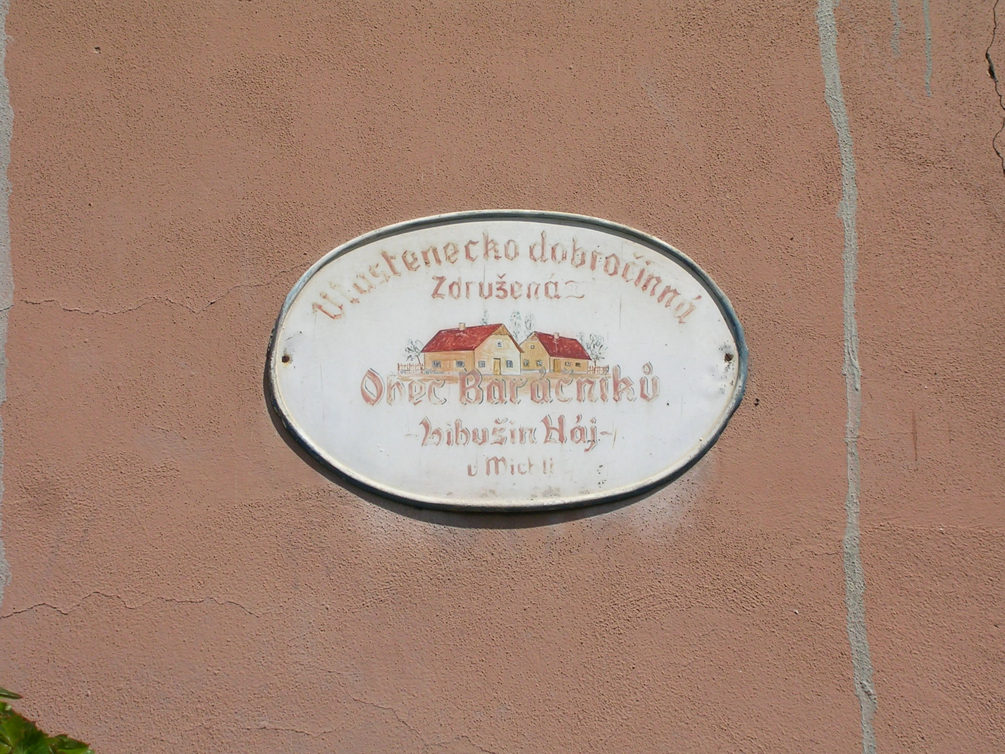 Michle, Prague, the Czech Republic. Nuselská Street.